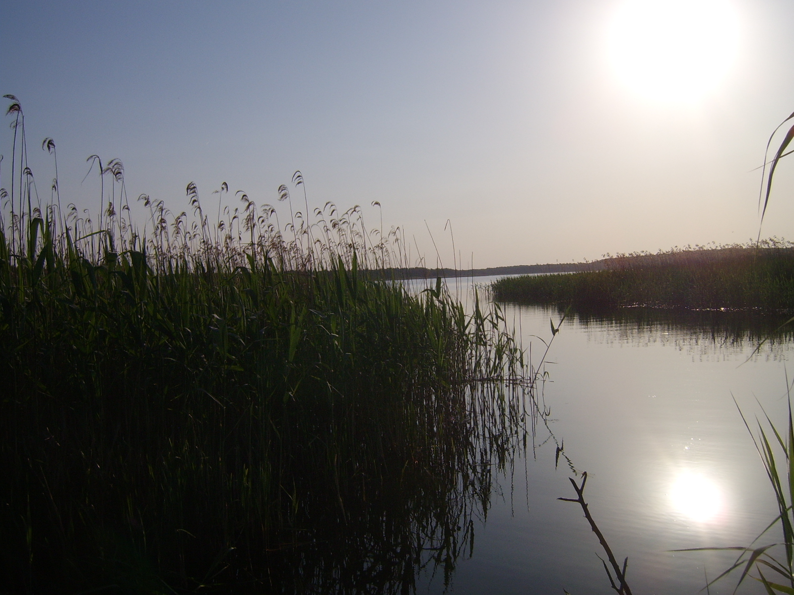 wypływ rzeki z jeziora Białoławki